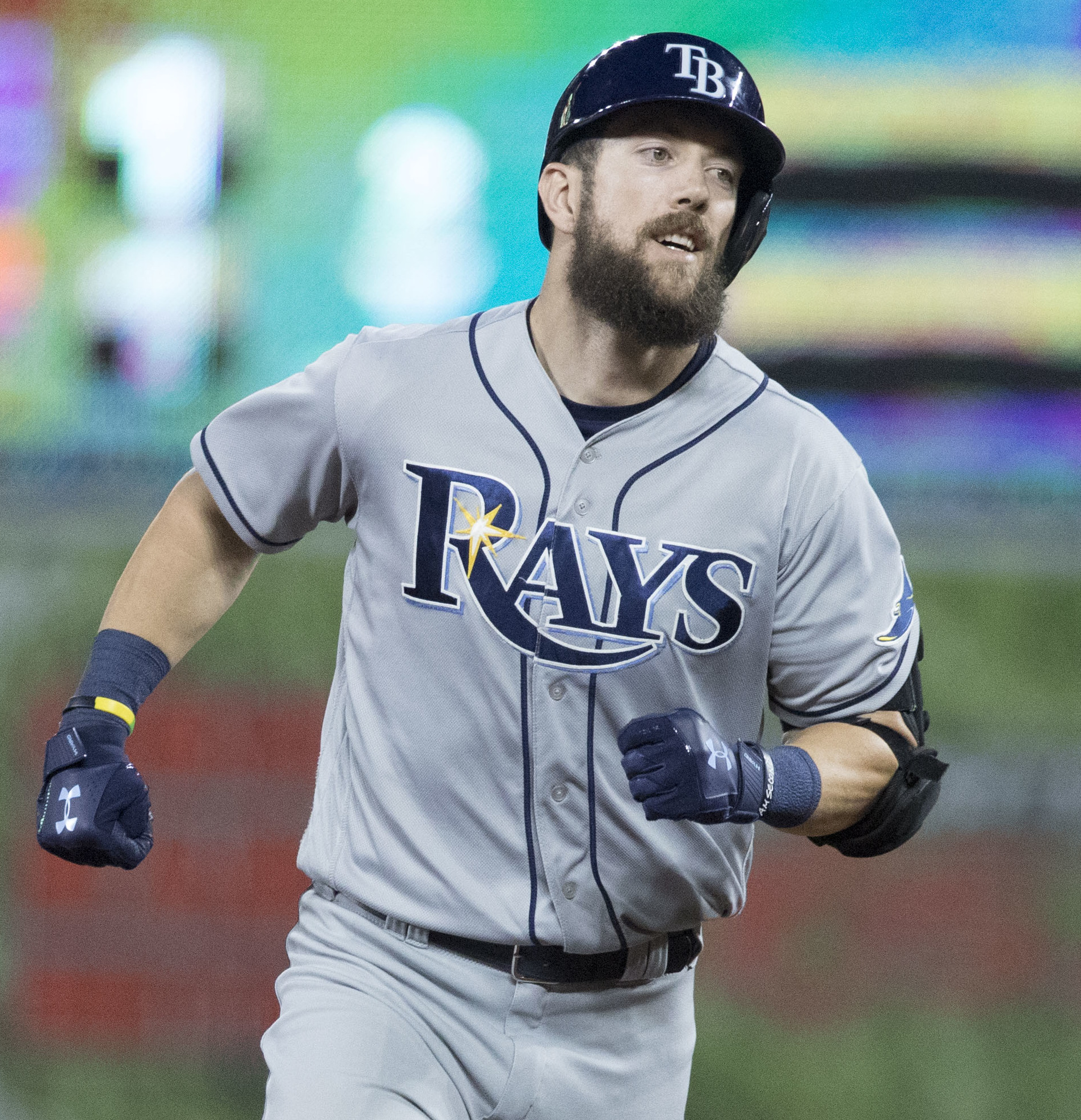 Rays at Orioles 6/30/17